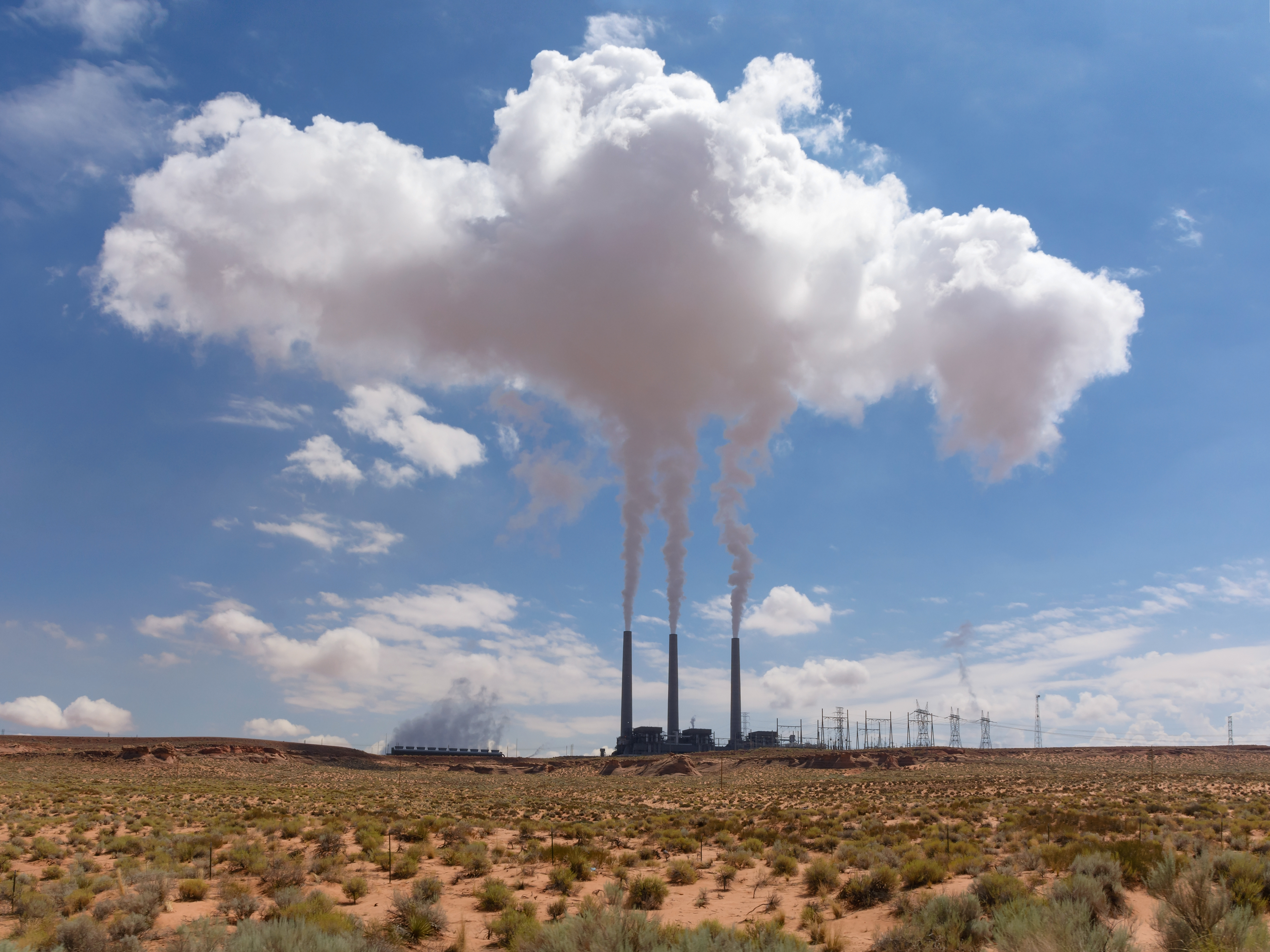 The Navajo Generating Station emetting flue gas emissions near Page, Arizona, United States.